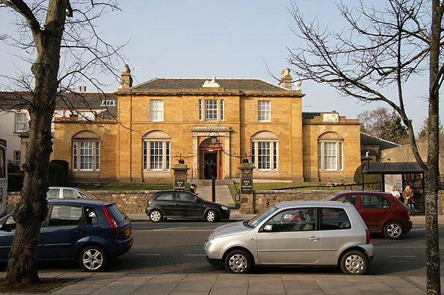 The Bank of Scotland branch at Haddington